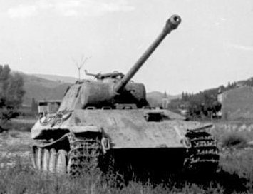 Title: Italien, Panzer V (Panther) im Gelände Extra information: Italien, bei Florenz/Ravenna.- Panzer V "Panther" in Fahrt in hügeligem Gelände; PK Lfl 2 Factual corrections and alternative descriptions are encouraged separately from the original description. Additionally errors can be reported at this page to inform the Bundesarchiv. Original historic description